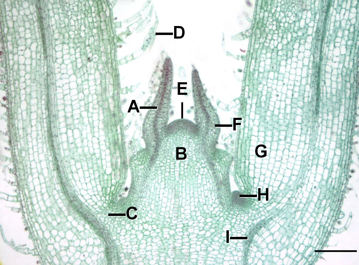 Photomicrograph of a Coleus stem tip. A=Procambium, B=Ground meristem, C=Leaf gap, D=Trichome, E=Apical meristem, F=Developing leaf primordia, G=Leaf Primordium, H=Axillary bud, I=Developing vascular tissue. Scale=0.2mm.